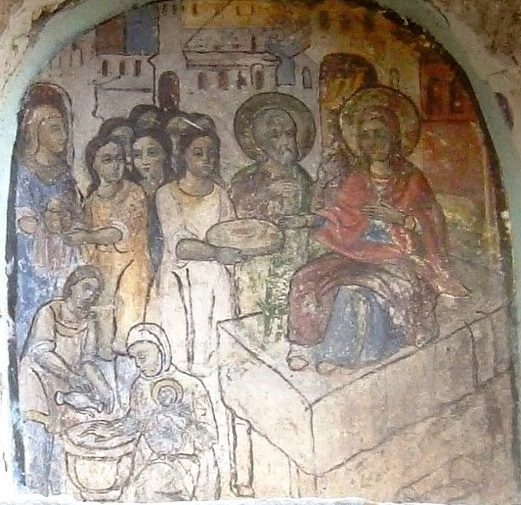 Birth of Mary Fresco in Klisoura Monastery